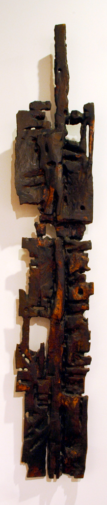 Sculpture by Jan Koblasa, Target, wood (1963)